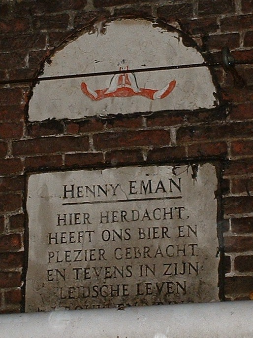 memorial stone for Henny Eman, at the Leyden pub 'het Keizertje'.